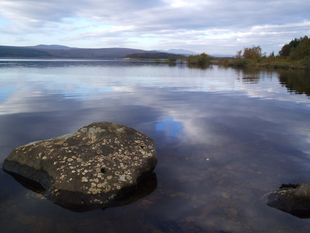 Loch Shin, looking up the loch towards the Airde point.